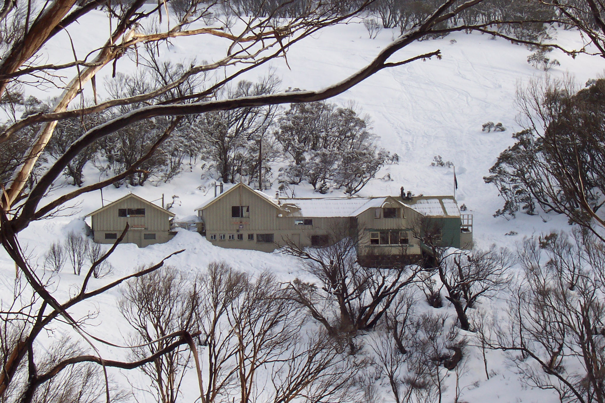 Taken in winter 2004 of the Bogong Rover Chalet. Maelgwn 11:49, 9 November 2005 (UTC)